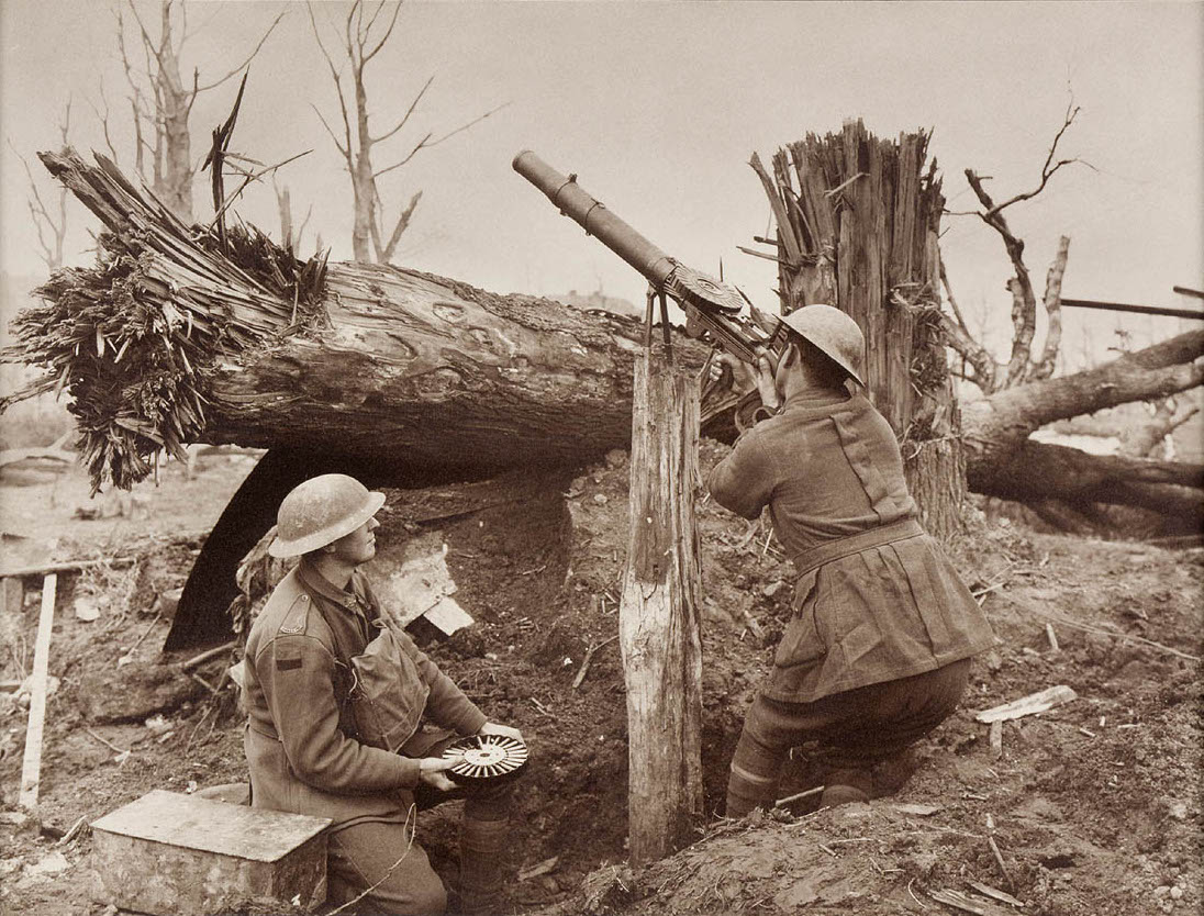 Caption: "Two unidentified Australian Lewis Machine Gunners of the 1st Battalion in a place of vantage formed by a shell splintered tree on the Ramparts at Ypres. During the Third Battle of Ypres, the aerial activity was almost continuous, day and night, and the rattle of machine guns for aerial defence was practically incessant. The gunner (left) has a magazine ready to load, once the magazine on the gun is empty."